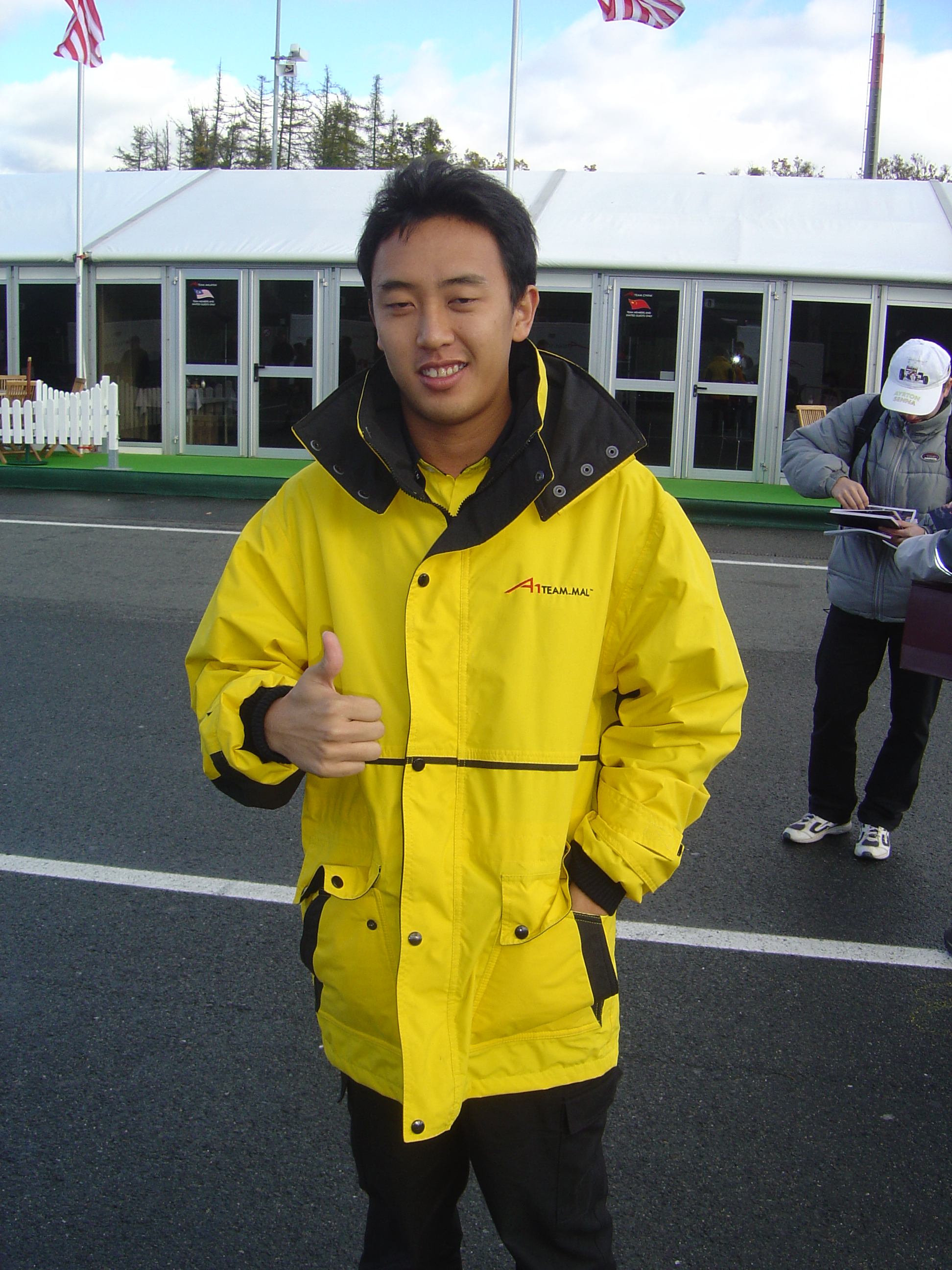 Aaron Lim: the photo was taken during 2007's A1GP race weekend at Brno